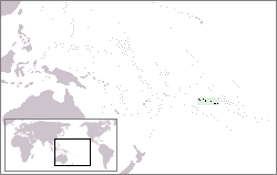 Location of Society Islands, French Polynesia